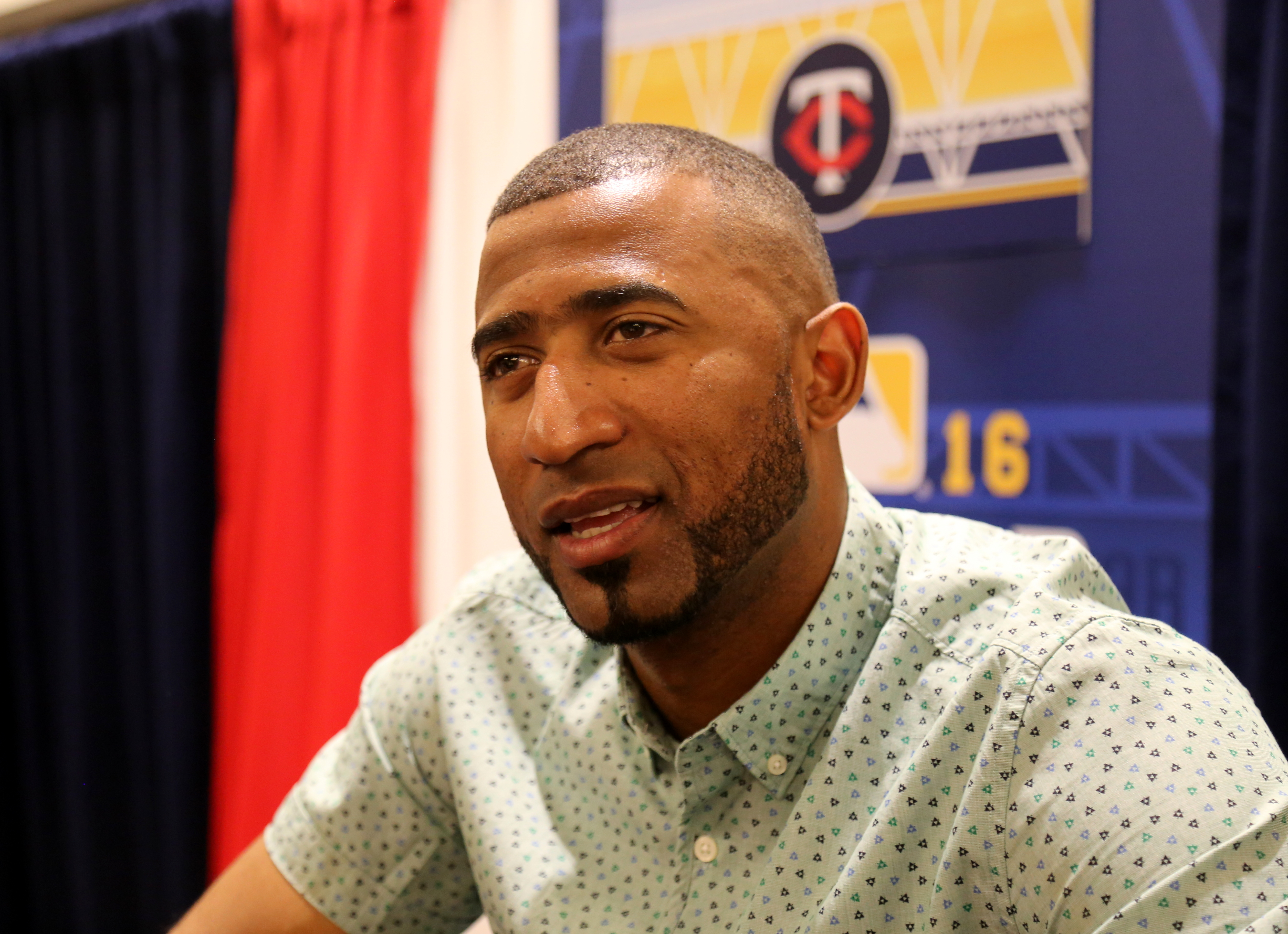 Twins infielder Eduardo Nunez talks to reporters at 2016 All-Star Game availability.